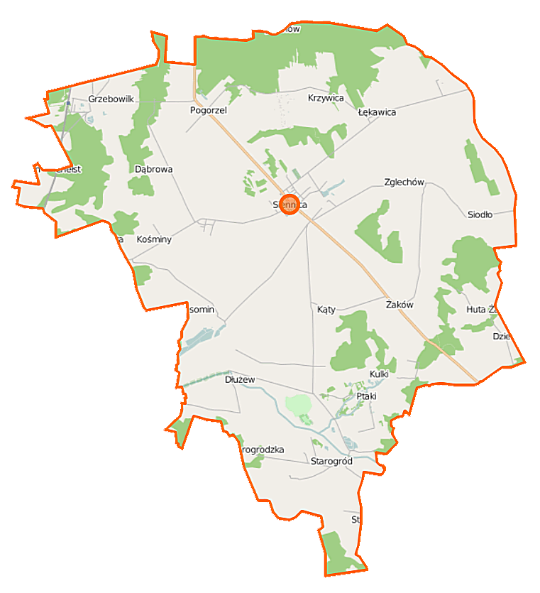 Map of Gmina Siennica, Poland This map of Siennica (gmina) was created from OpenStreetMap project data, collected by the community. This map may be incomplete, and may contain errors. Don't rely solely on it for navigation. Border coordinates52.140021.5071←↕→21.716251.9990